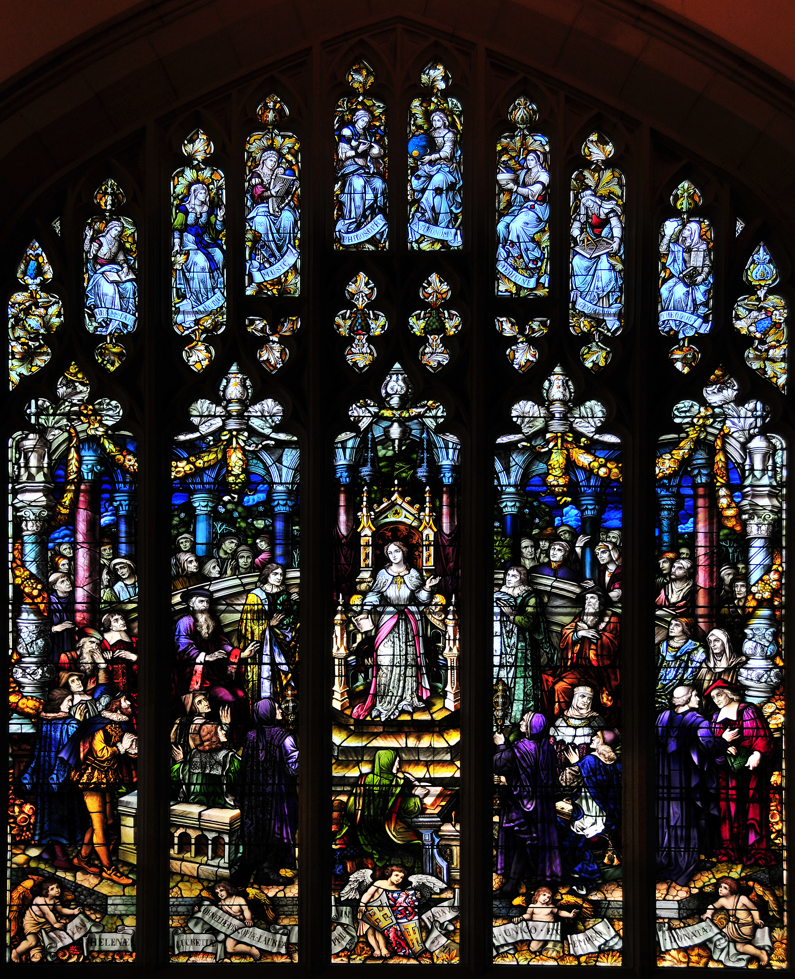 Vassar College, Poughkeepsie, New-York Elena Cornaro Piscopia